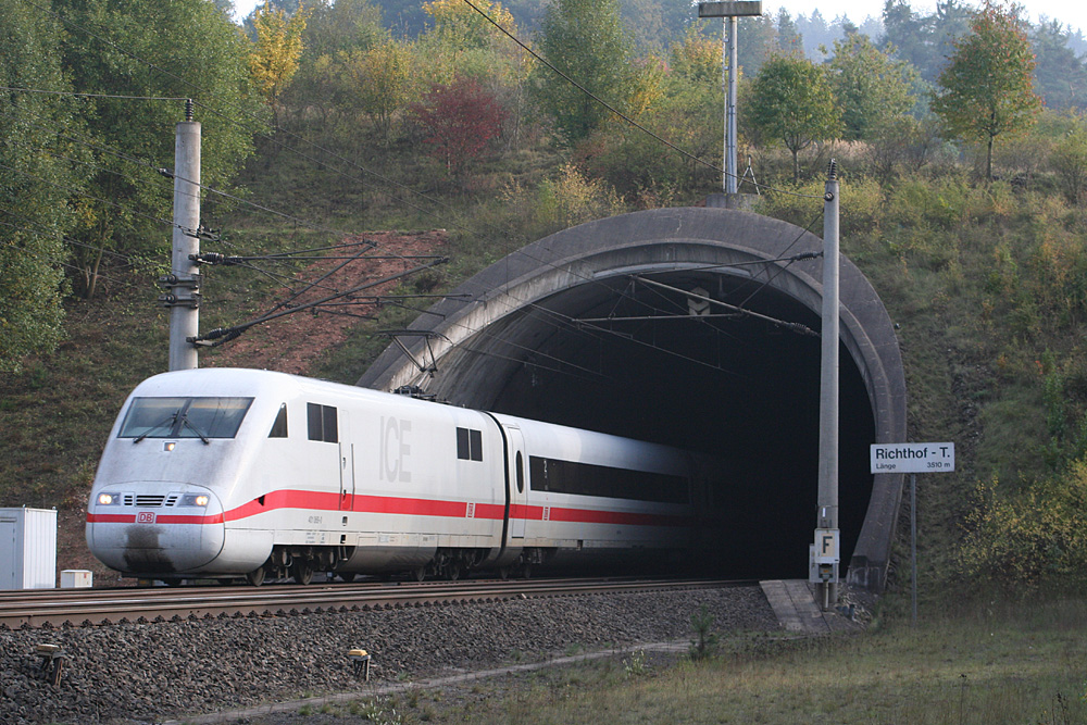 A ICE 1 high-speed train leaves the Richthof-Tunnel of the Hannover-Würzburg high-speed railway line, headed north